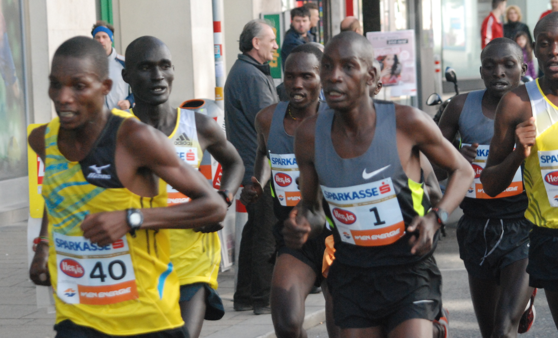 Nrs. 40, Victor Kipchirchir and 1, Henry Sugut 'enroute'; Vienna City Marathon 2013; Sugut won in 2:08:19. Due to weather conditions, he could not outperform his and VCM's record time, from 2012.